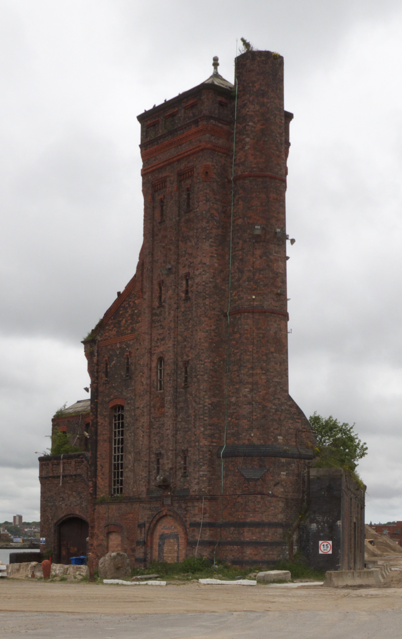 Hydraulic Engine House, Bramley Moore Dock, Regent Road, Liverpool, Merseyside, L3 0AP, UK. Also sometimes called the Pump House, Bramley Moore Dock. View from North-East. This building is Grade II listed, list entry number 1072981, see Historic England - Hydraulic Engine House at Bramley Moore Dock. (Archived from the original on 16 June 2015.) (The following listing could be the one mentioned in the text of listing 1072981: Historic England - Listing Number 1360217.) (Archived from the original on 16 June 2015.) The building is in Area 3 of the Liverpool City World Heritage Site - see 'Figure 1.1 WHS and Buffer Zone Boundary' on 'Page 4' (Page 12 in Acrobat) of Liverpool City Council - World Heritage Site Supplementary Planning Document. (Archived from the original on 16 June 2015.) The photo was taken from around 150 metres away, which was the closest access available at the time. The camera zoom did not get as close as ideal. Adjustments to the image were made to the RAW file, using SILKYPIX Developer Studio. The image was cropped and some colour balance changes were made, before converting to jpg format.